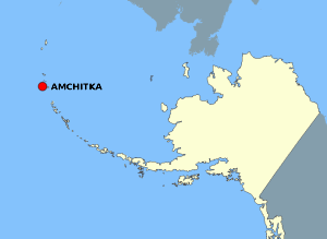 This map is a derivative work of a map layer from , which states: "We have begun by collaboratively building "frameworks," the essential map layers that provide a foundation for all other maps. These basic layers, including small-scale harmonized information on North American roads, water, boundaries and the like, are being offered here for the first time. Like all other raw data and documentation offered here on , these frameworks can be downloaded at no cost and used freely without copyright concerns or license restrictions."[1] I donate the modifications and the resulting work to the public domain.